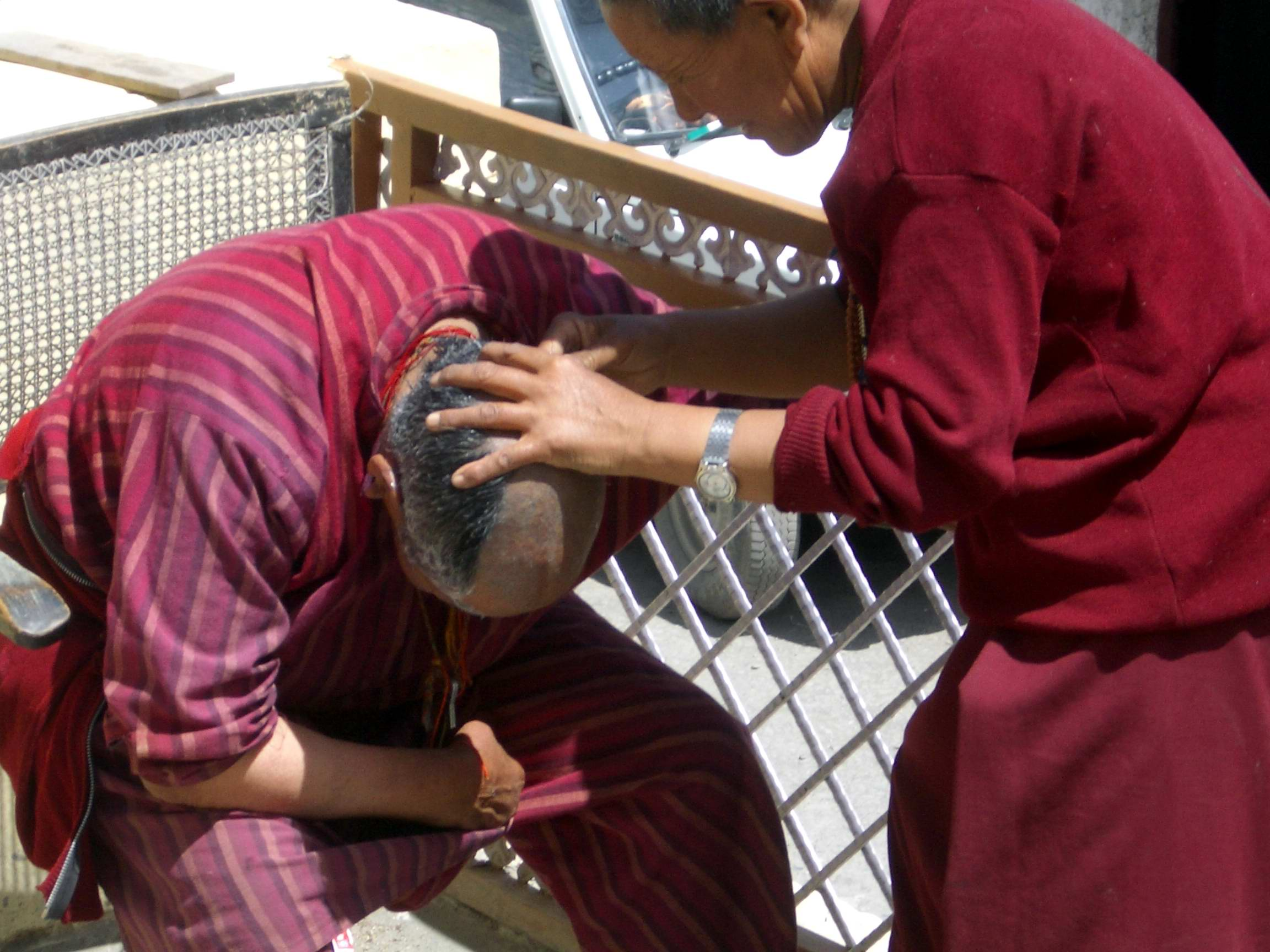 Photo taken by myself of woman having head shaved to become a nun. Key, Spiti, 2004.